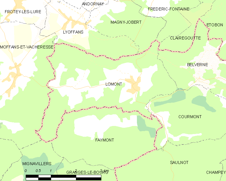 Map of French municipality